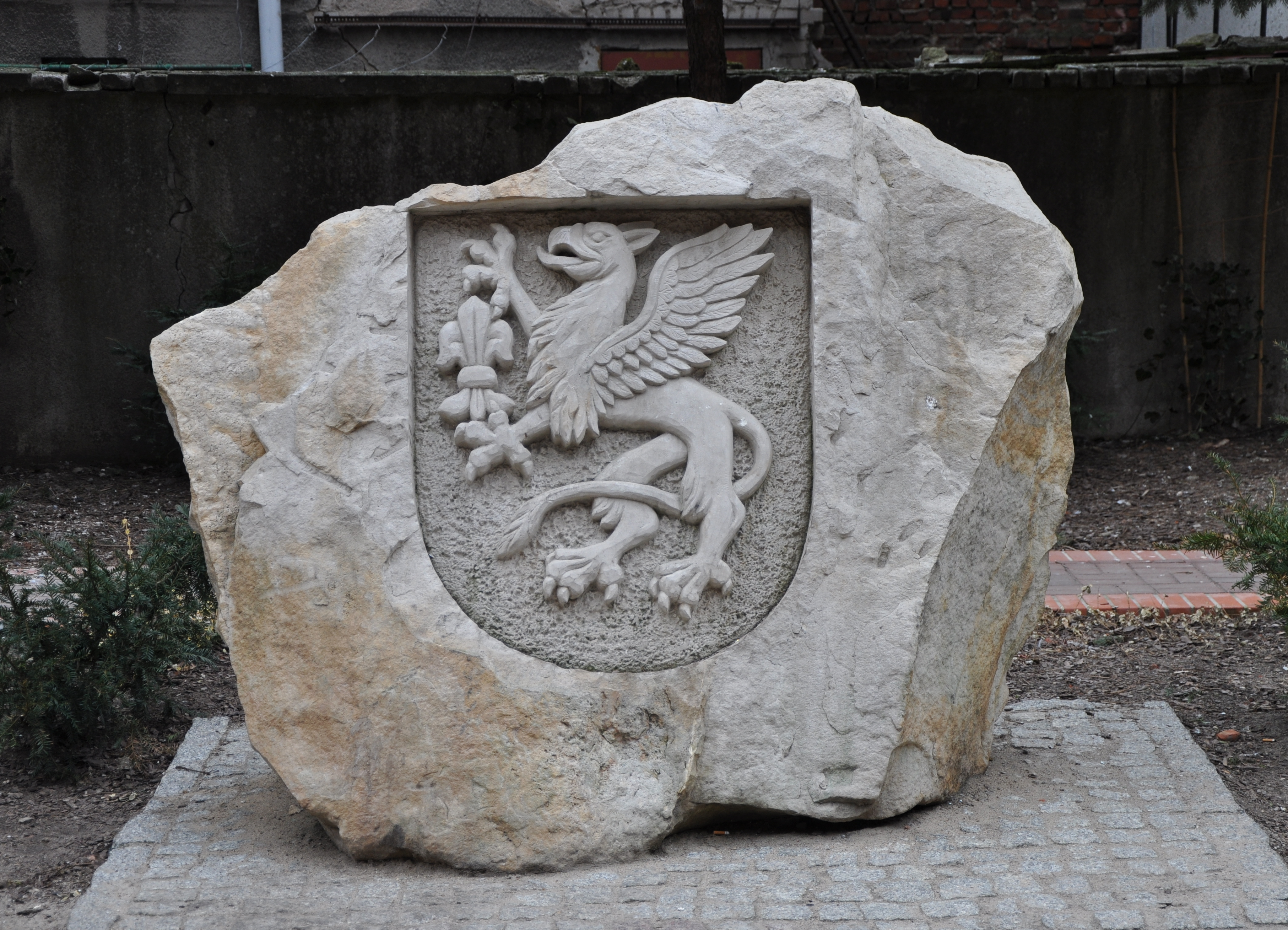 The sculpture in stone linking to symbol of present of town Gryfice (Poland)